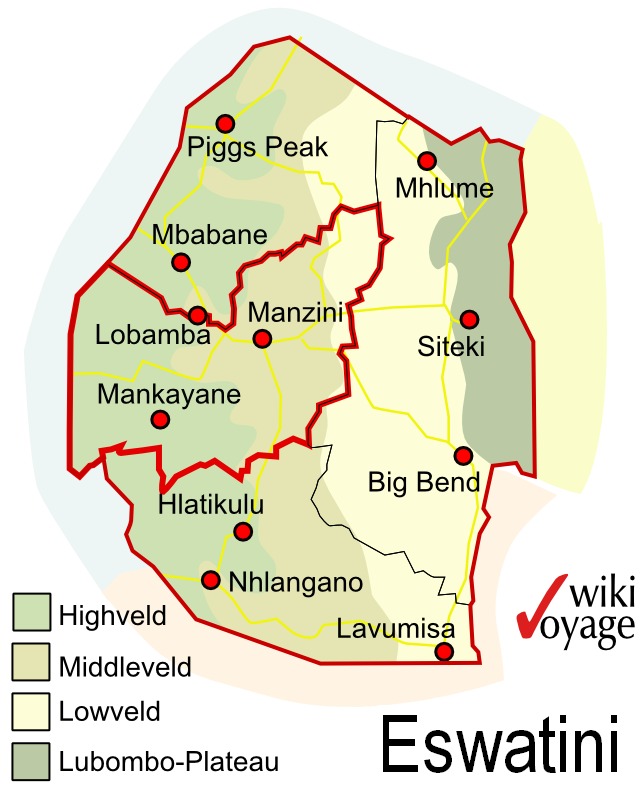 Outline map of District Manzini in Eswatini